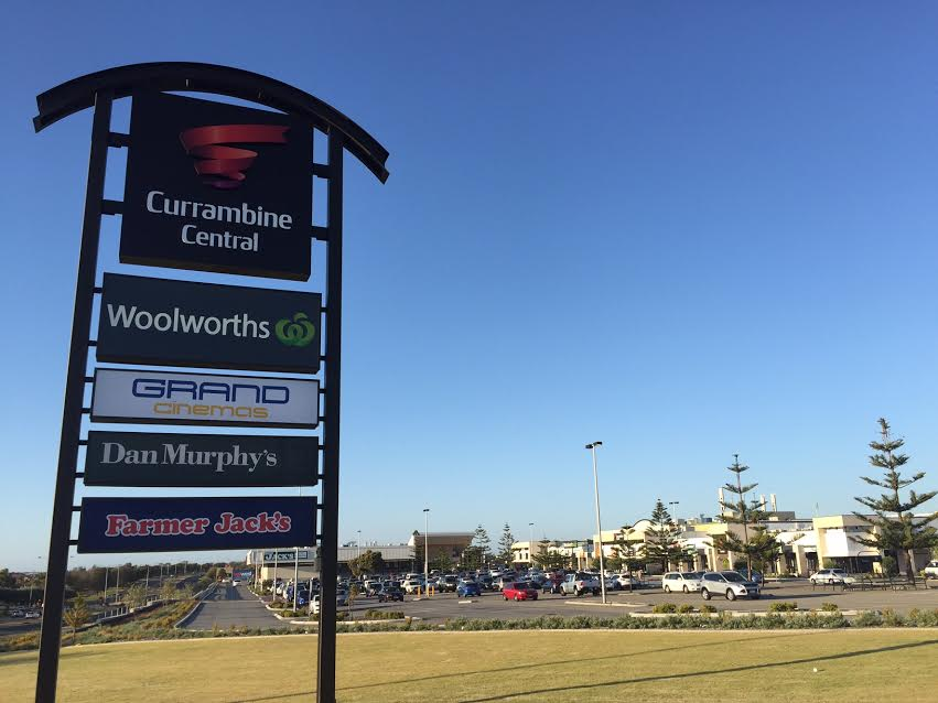 A view of Currambine Central